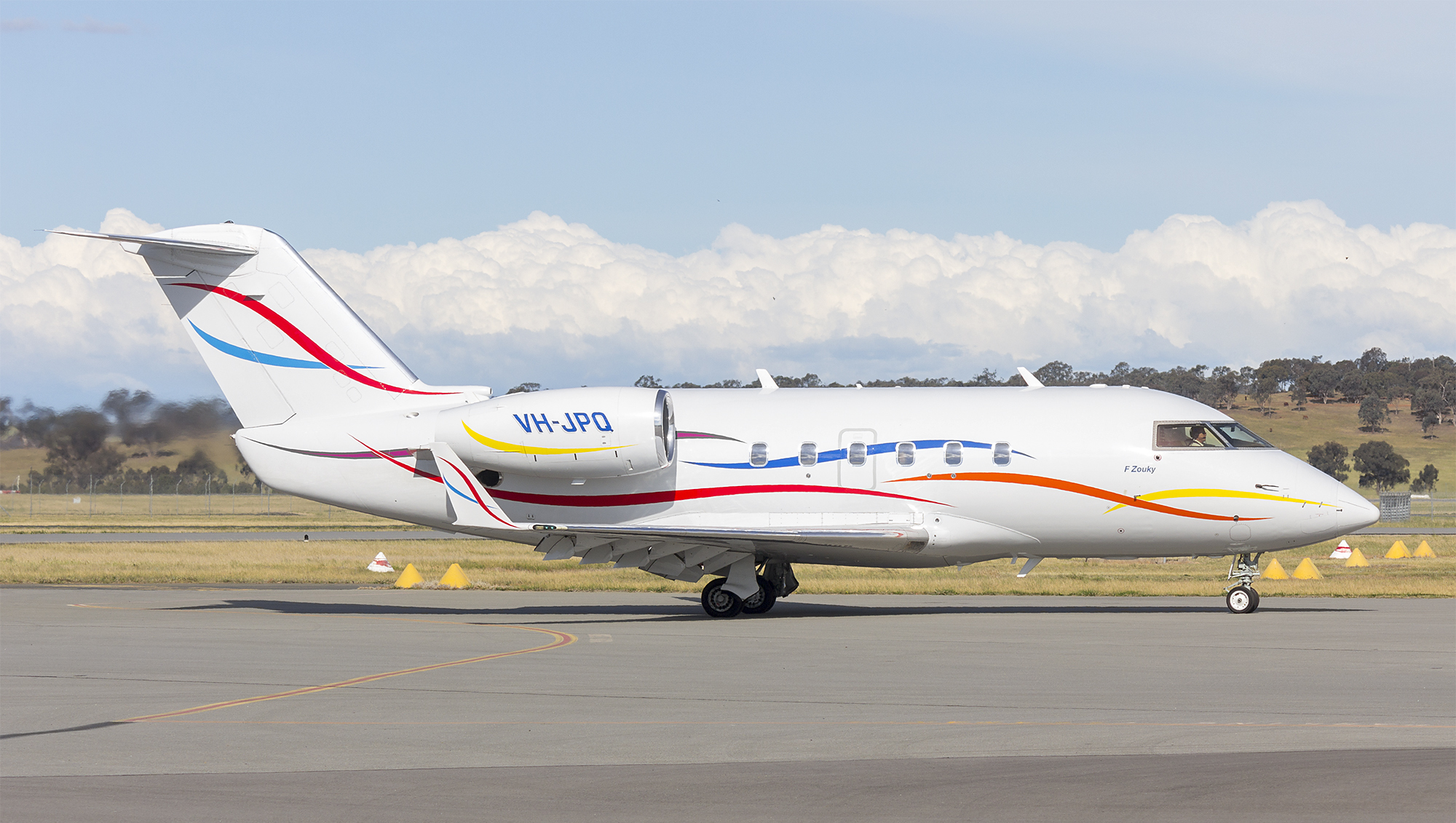 Australian Corporate Jet Centres (VH-JPQ) Canadair CL-600-1A11 Challenger 600 at taxiing Wagga Wagga Airport.